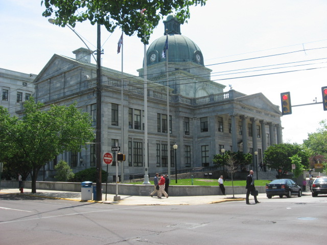 Montgomery County Courthouse in Norristown, PA as seen looking south from Airy Street